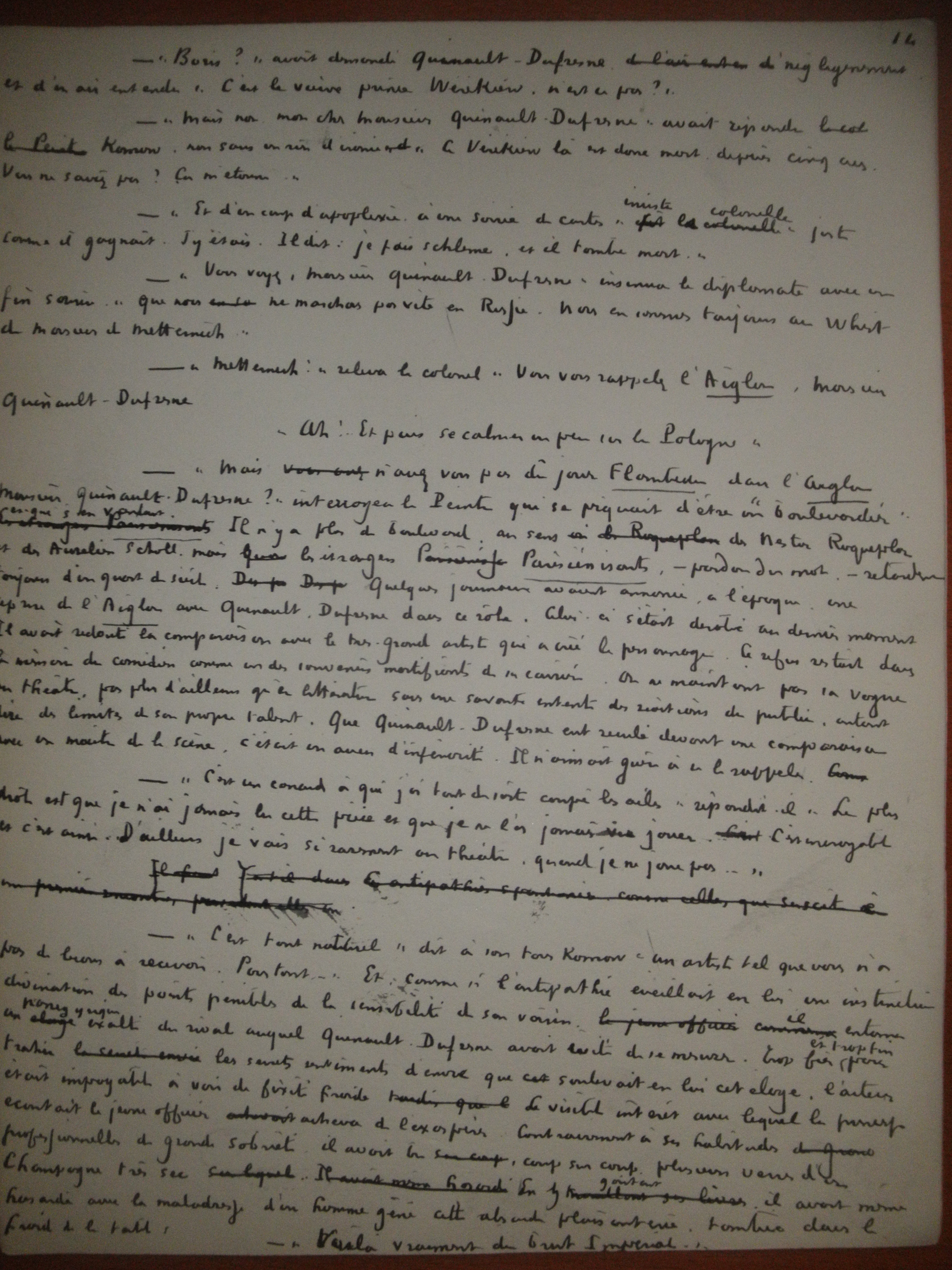 beau role